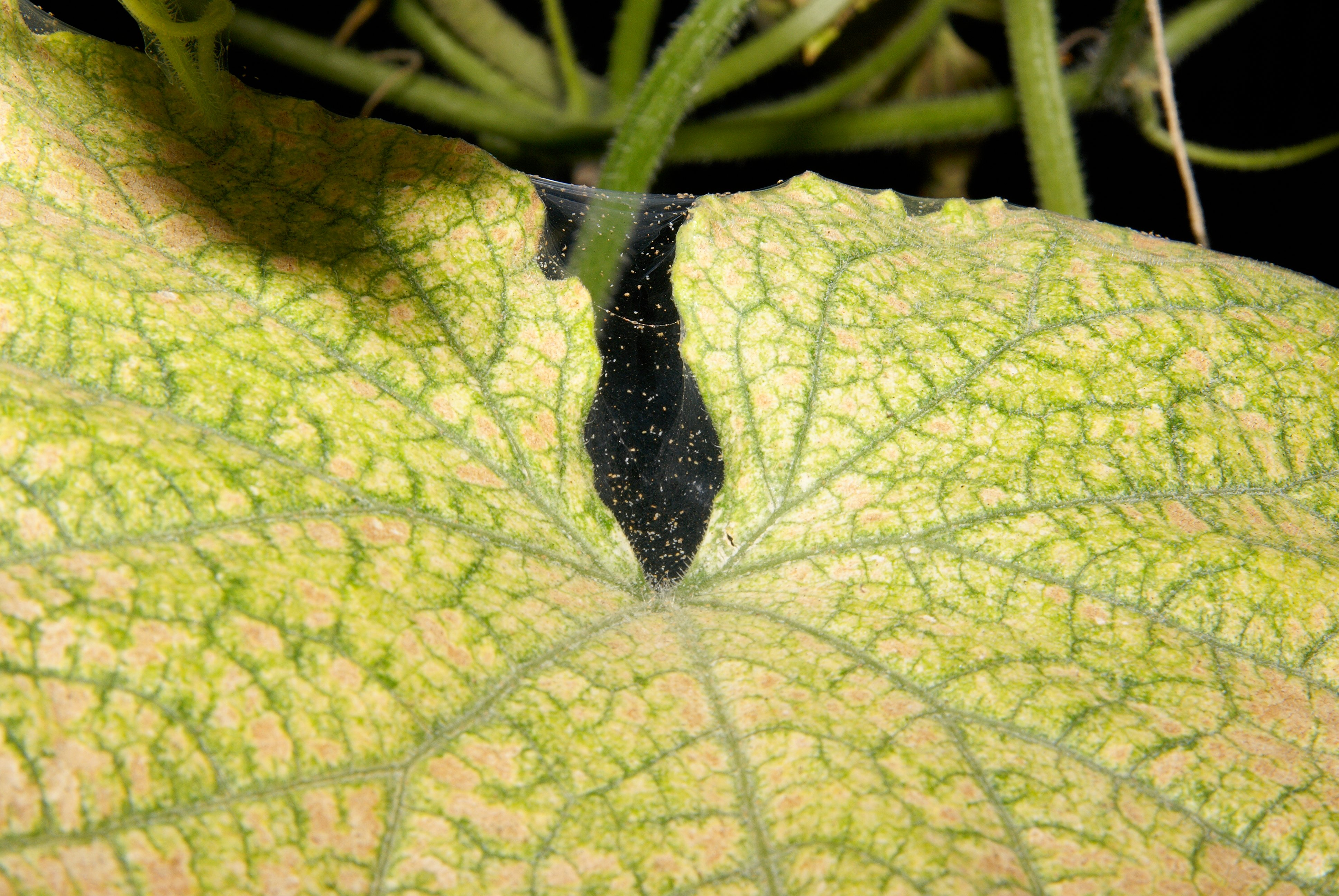 acarian